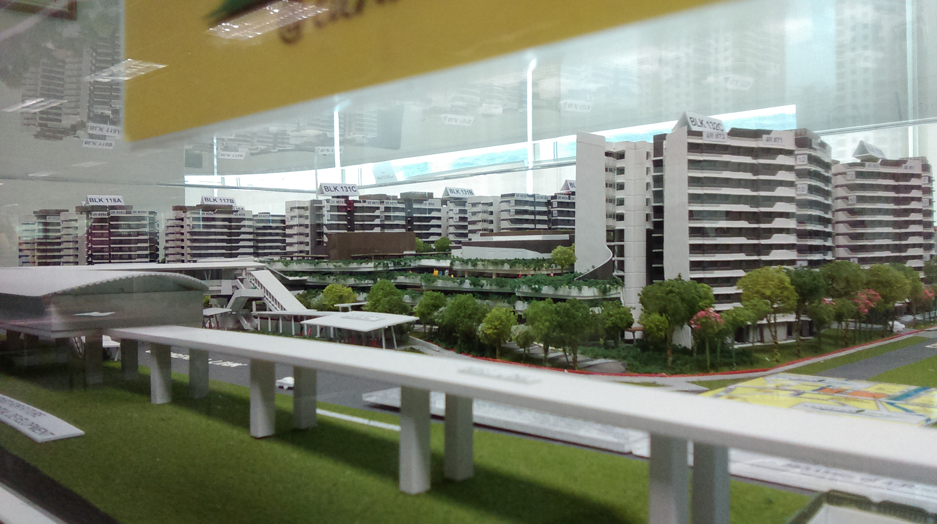 Picture of Canberra MRT and Canberra Plaza Model taken at HDB exhibition